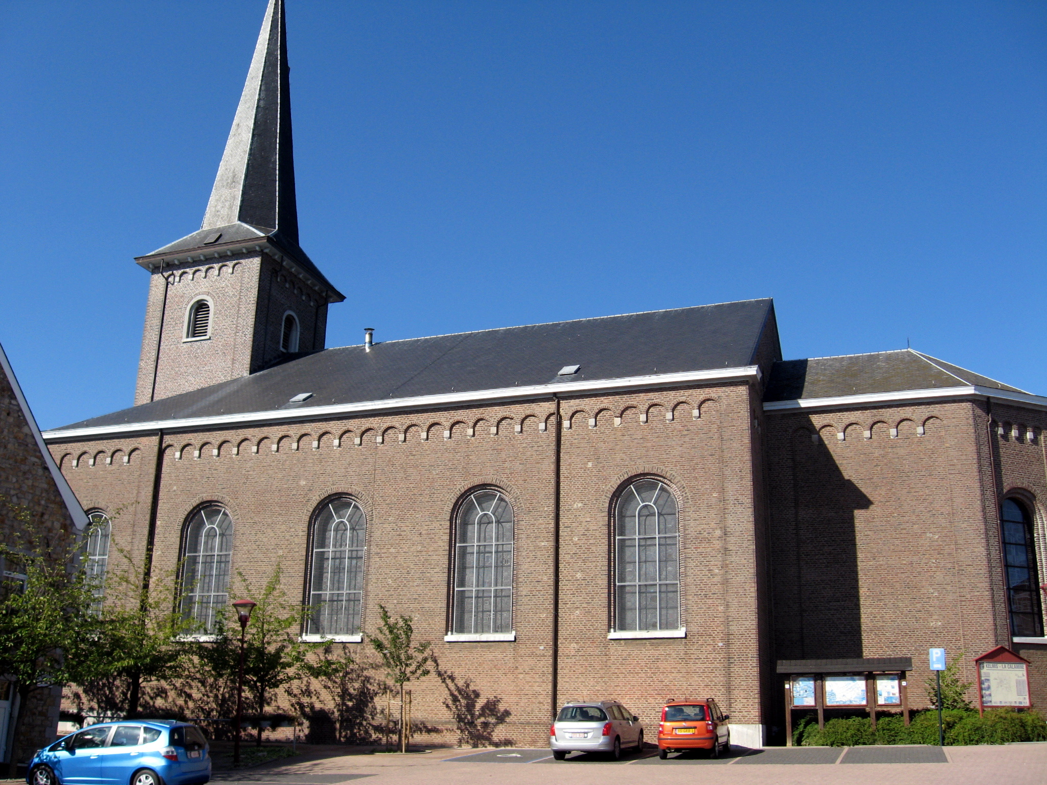 Church of Saint Martin in Hergenrath, Kelmis, Liège, Belgium